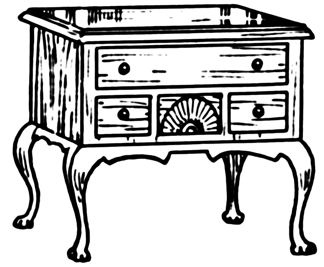 Drawing of a lowboy.